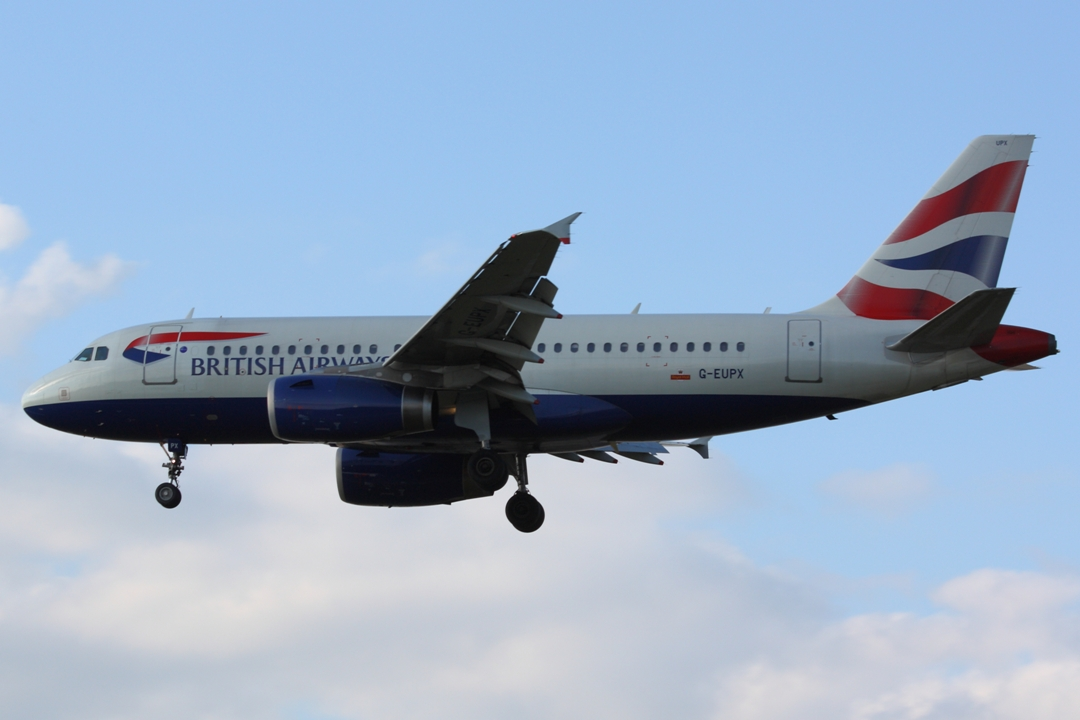 Airbus A319-131, c/n 1445, G-EUPX first flew on 15/03/2001 and entered into BA service on 14/12/2001.